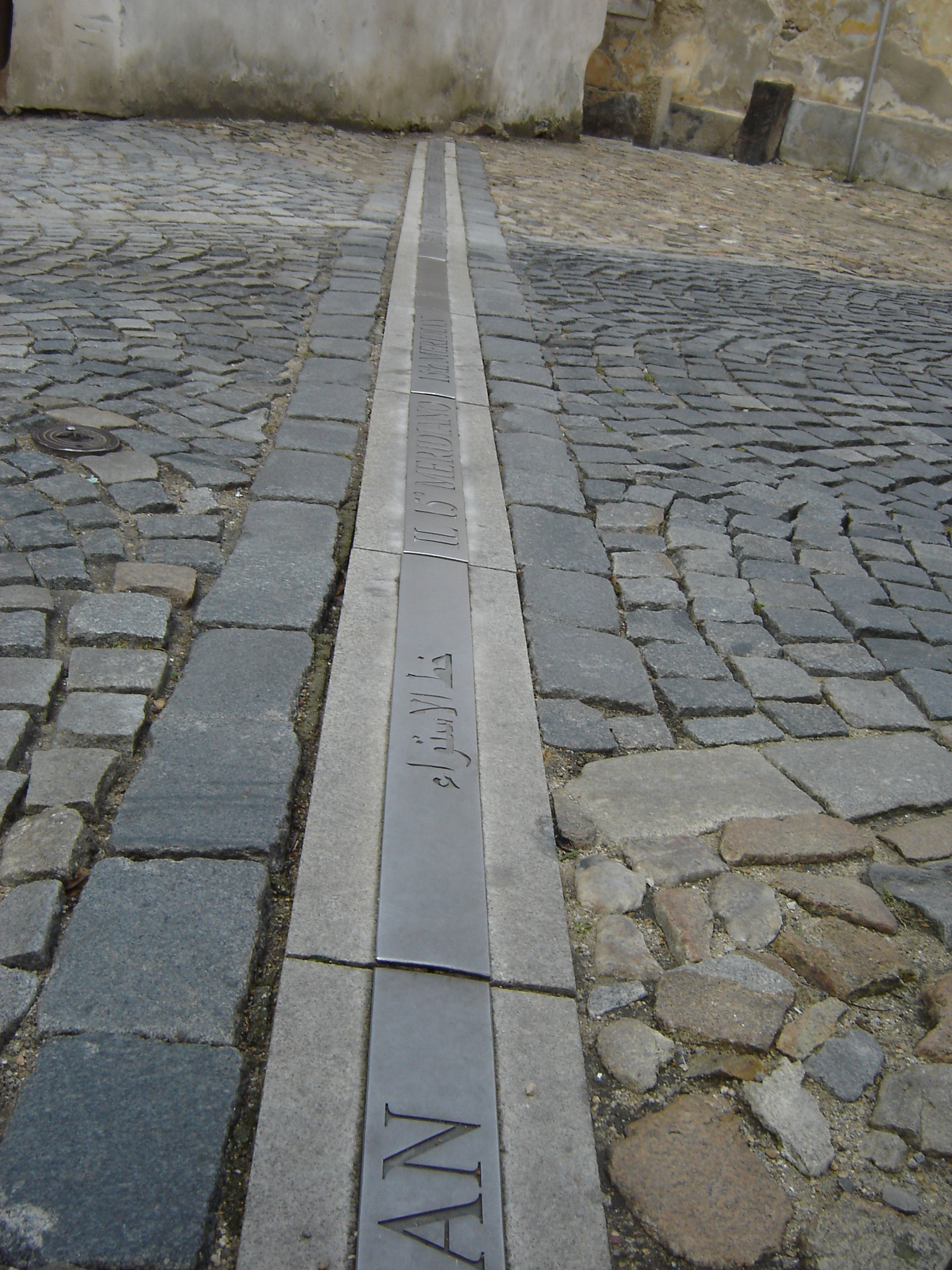 A strip marking the 15th meridian in Jindřichův Hradec